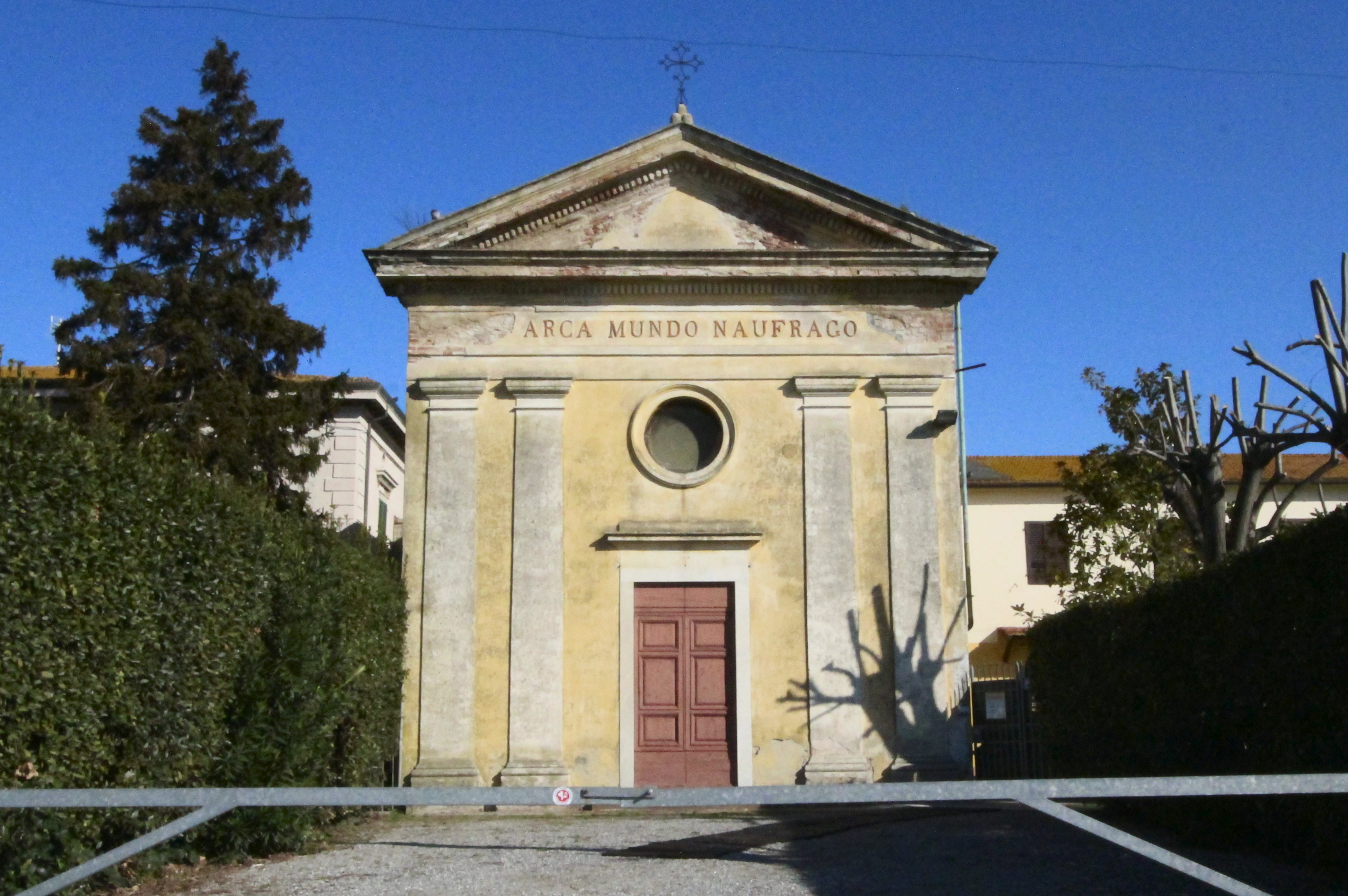 Church Sacro Cuore di Gesù, Latignano, hamlet of Cascina, Province of Pisa, Tuscany, Italy